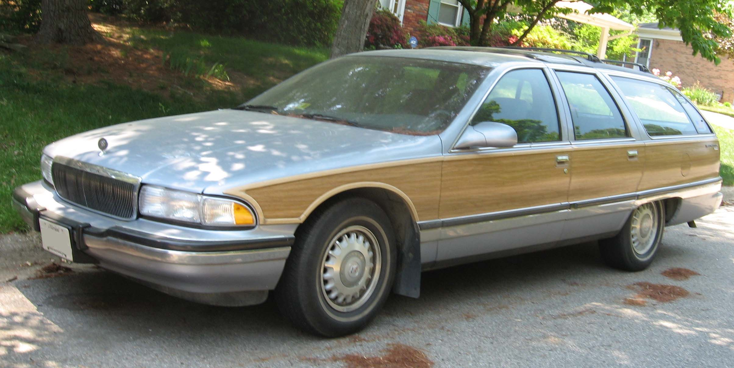 1991-1996 Buick Roadmaster photographed in USA.